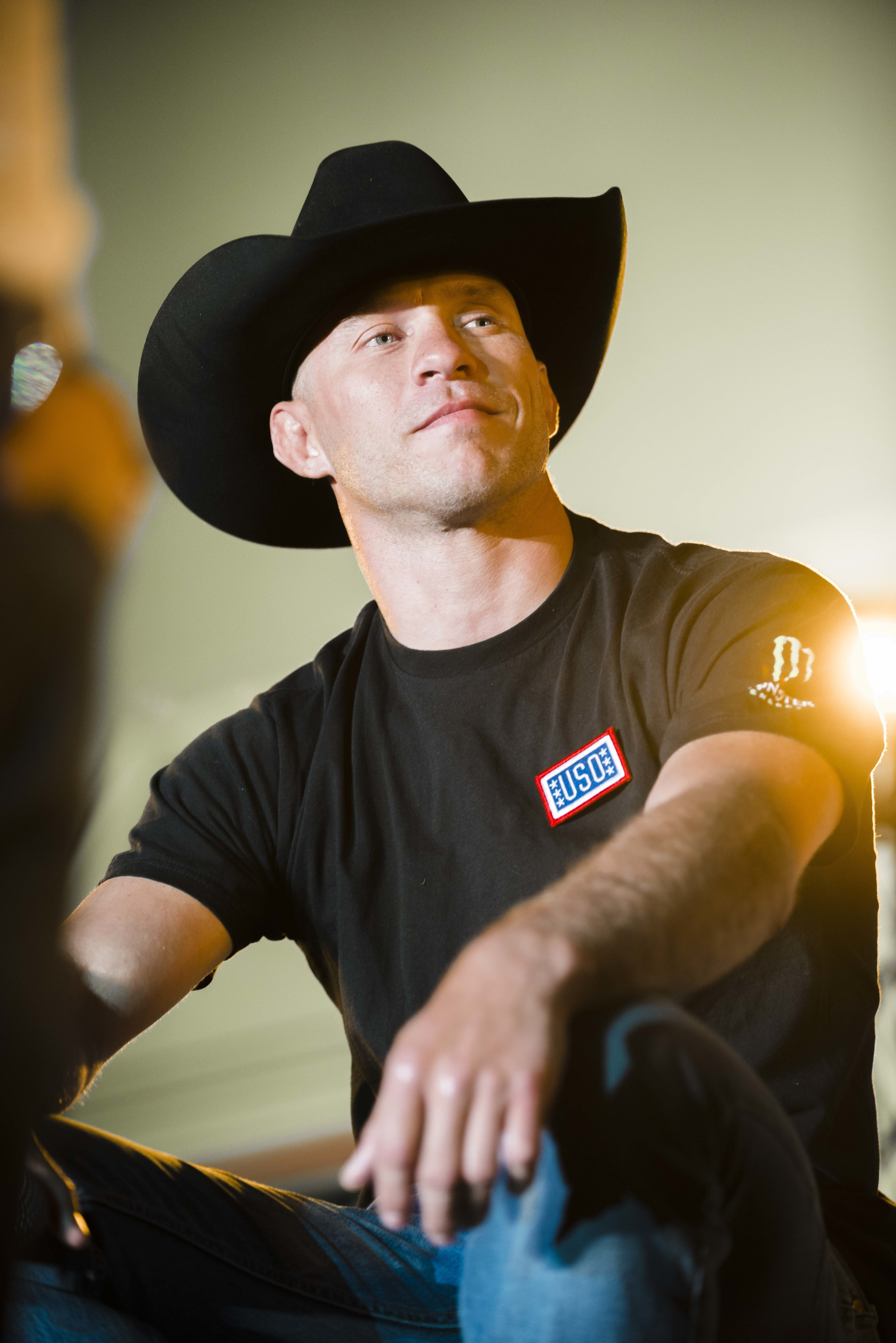 UFC fighter Donald "Cowboy" Cerrone sits on stage during a USO show at Joint Base Elmendorf-Richardson, Alaska, March 12, 2016. Gen. Selva and country music star Craig Morgan, Miss America 2016 Betty Cantrell, Carolina Panthers cornerback Charles "Peanut" Tillman, and UFC fighters Donald "Cowboy" Cerrone and Anthony "Showtime" Pettis are traveling to seven countries in eight days visiting service members as part of the USO Spring Tour. (DoD photo by U.S. Army Staff Sgt. Sean K. Harp) Unit: Office of the Chairman of the Joint Chiefs of Staff